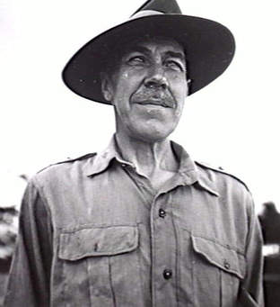 Original caption: “MOROTAI. 1945-09-12. ONE HUNDRED AND SIXTY FOUR EX PRISONERS OF WAR OF THE JAPANESE, SURVIVORS OF GULL FORCE, 2/21ST INFANTRY BATTALION AND ATTACHED TROOPS, WERE EVACUATED FROM AMBON IN THE CERAM SEA AND BROUGHT TO MOROTAI BY RAN CORVETTES FOR HOSPITALISATION AT 1ST AUSTRALIAN PRISONER OF WAR RECEPTION GROUP CAMP. SHOWN, MAJOR GENERAL C. A. CALLAGHAN, GENERAL OFFICER COMMANDING 8TH DIVISION WAITING AT THE WHARF TO GREET THEM.”